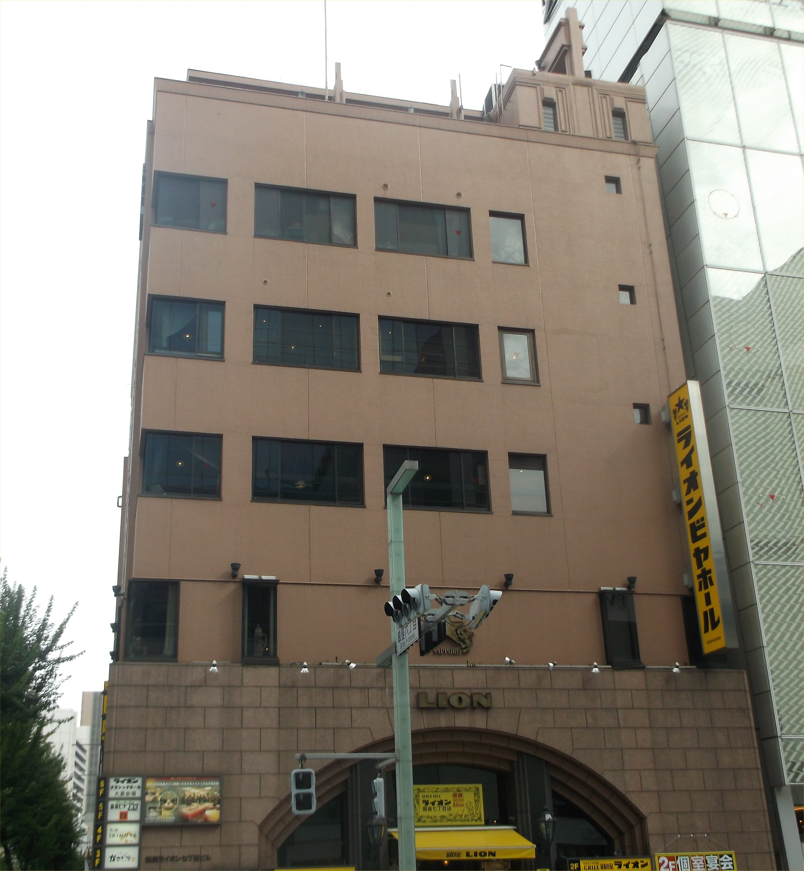 A photo of "Ginza Lion"(a beer bar in Ginza,Tokyo)Ginza 7chome branch shop,Ginza,Chuo-ku,Tokyo,Japan.